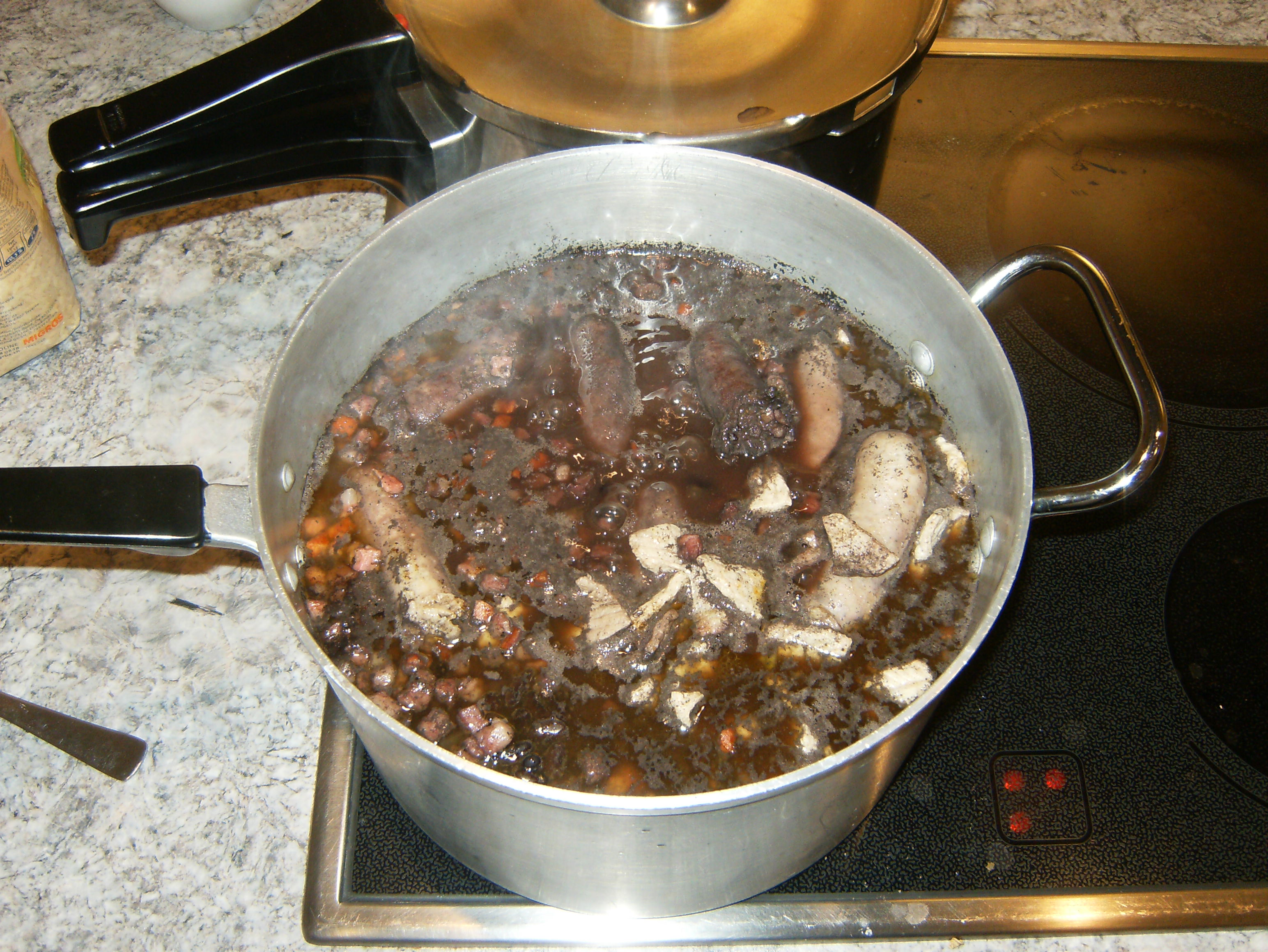 Brazilian black beans stew